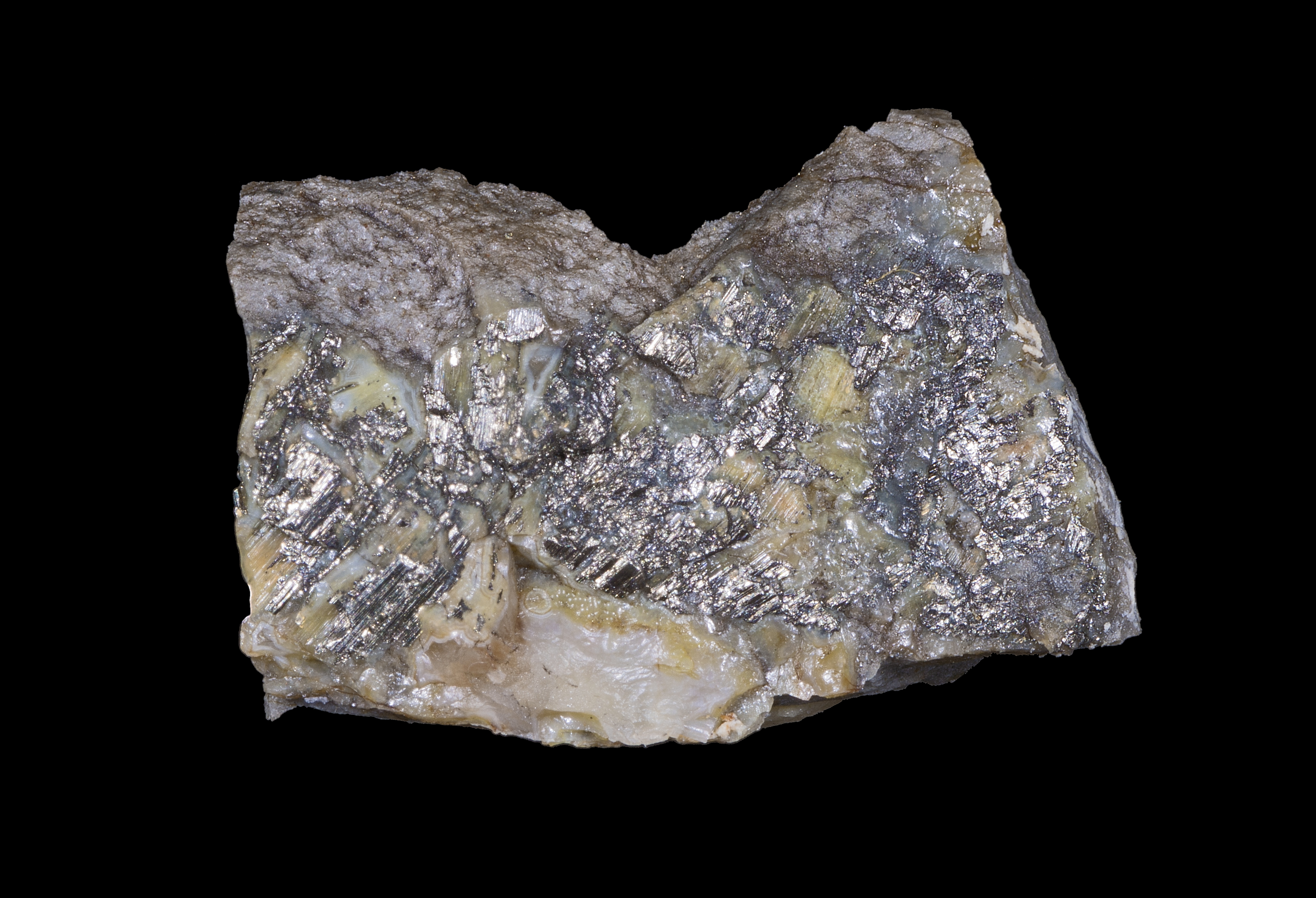 Calaverite - Creeple Creek – Colorado (USA) (2x1cm)